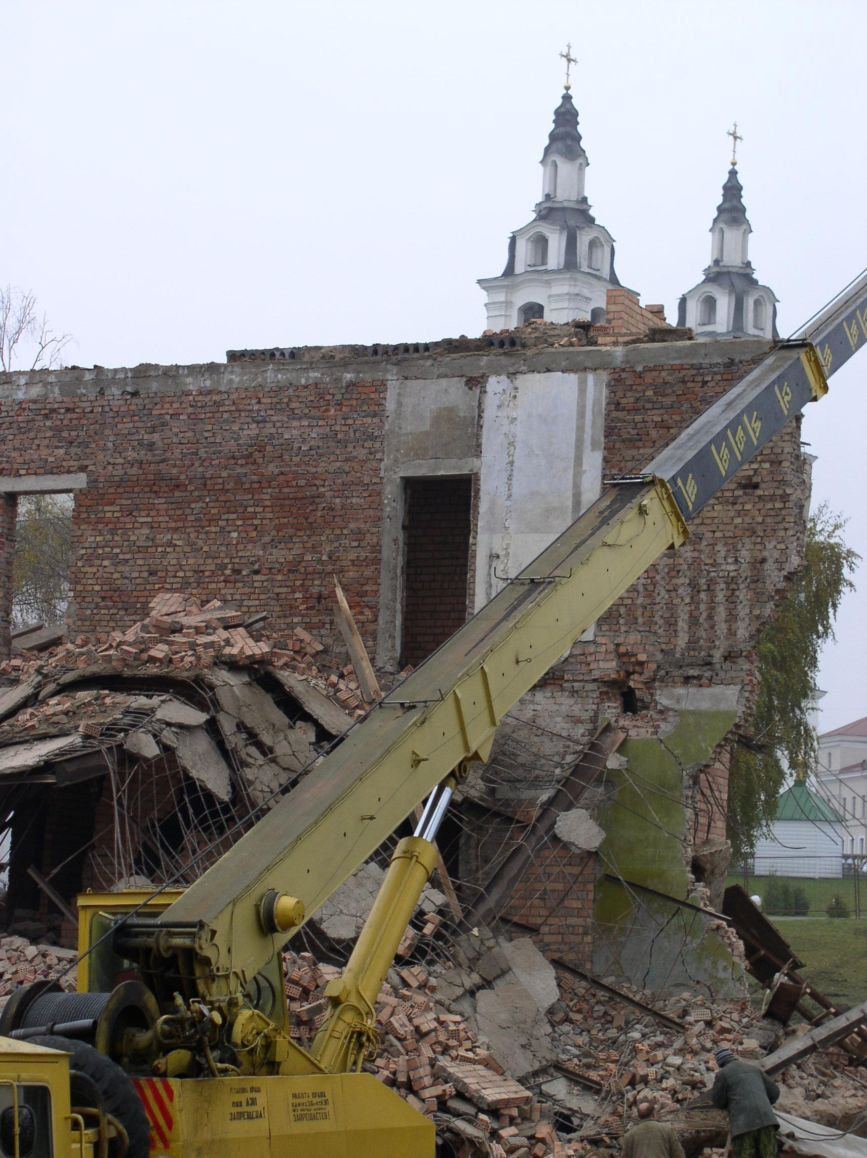 Demolition of 27 Trade street. Minsk, Belarus.